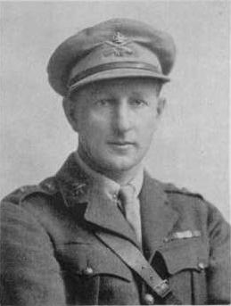 Captain Robin Harper DSO DCM MC commander of the New Zealand 1st Machine-Gun Squadron, New Zealand Mounted Rifles Brigade